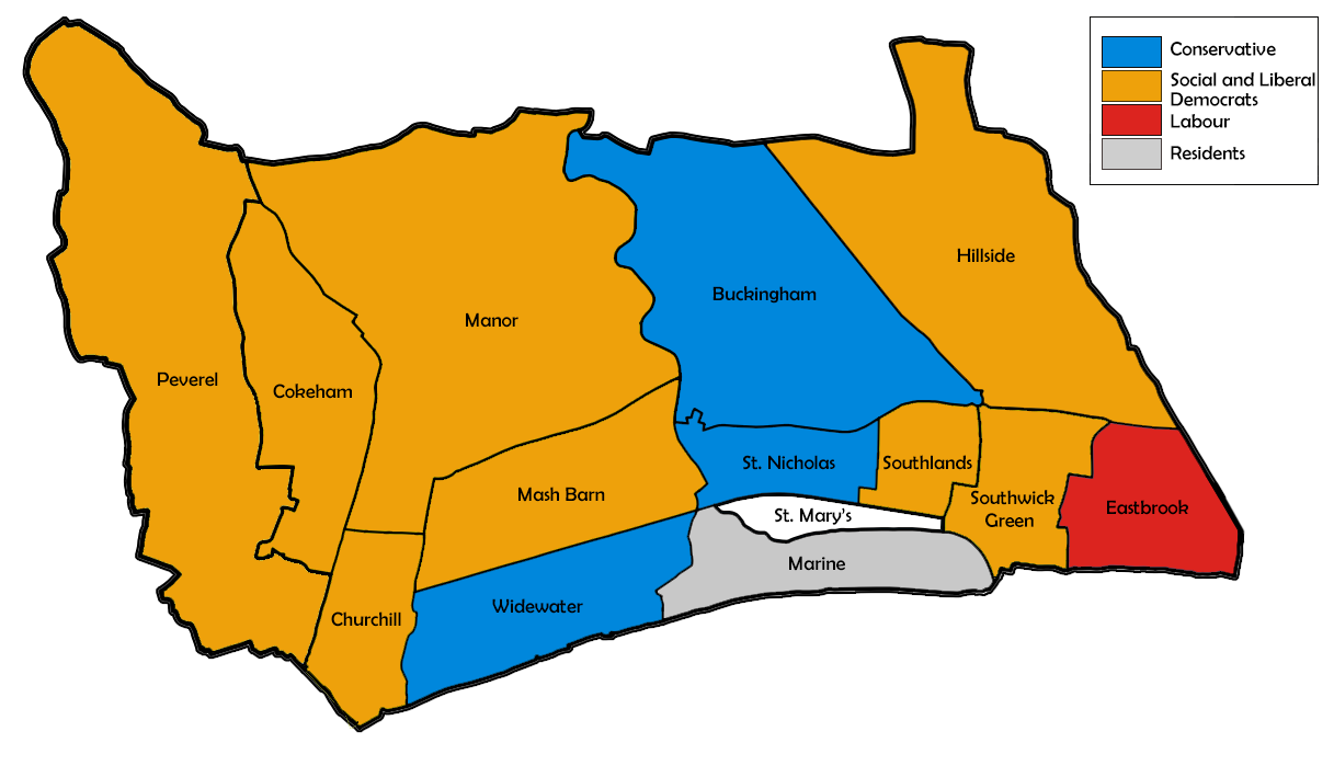 Ward map of Adur council with political colouring for the 1990 election.